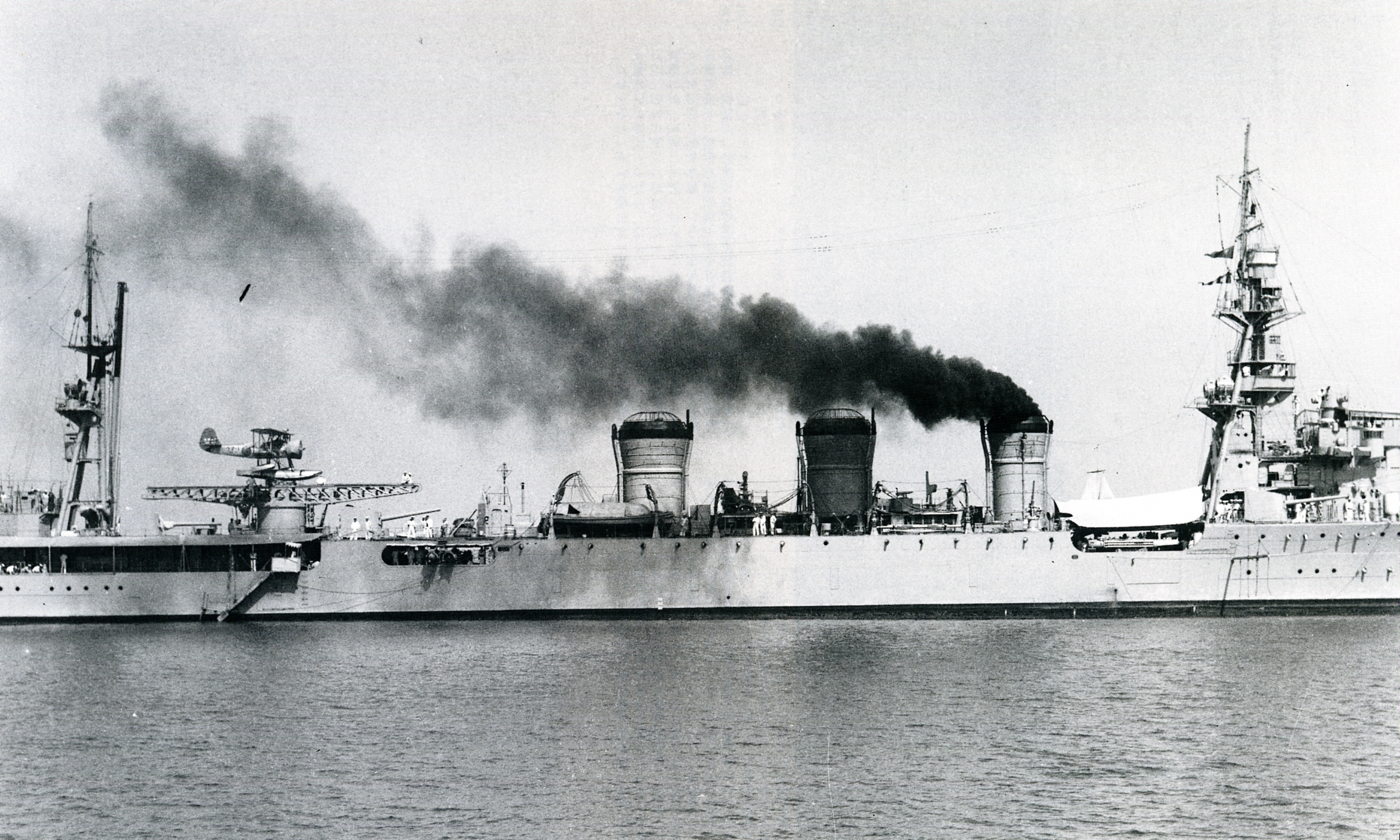 Japanese light cruiser Kuma on patrol off of Tsingtao, 1935